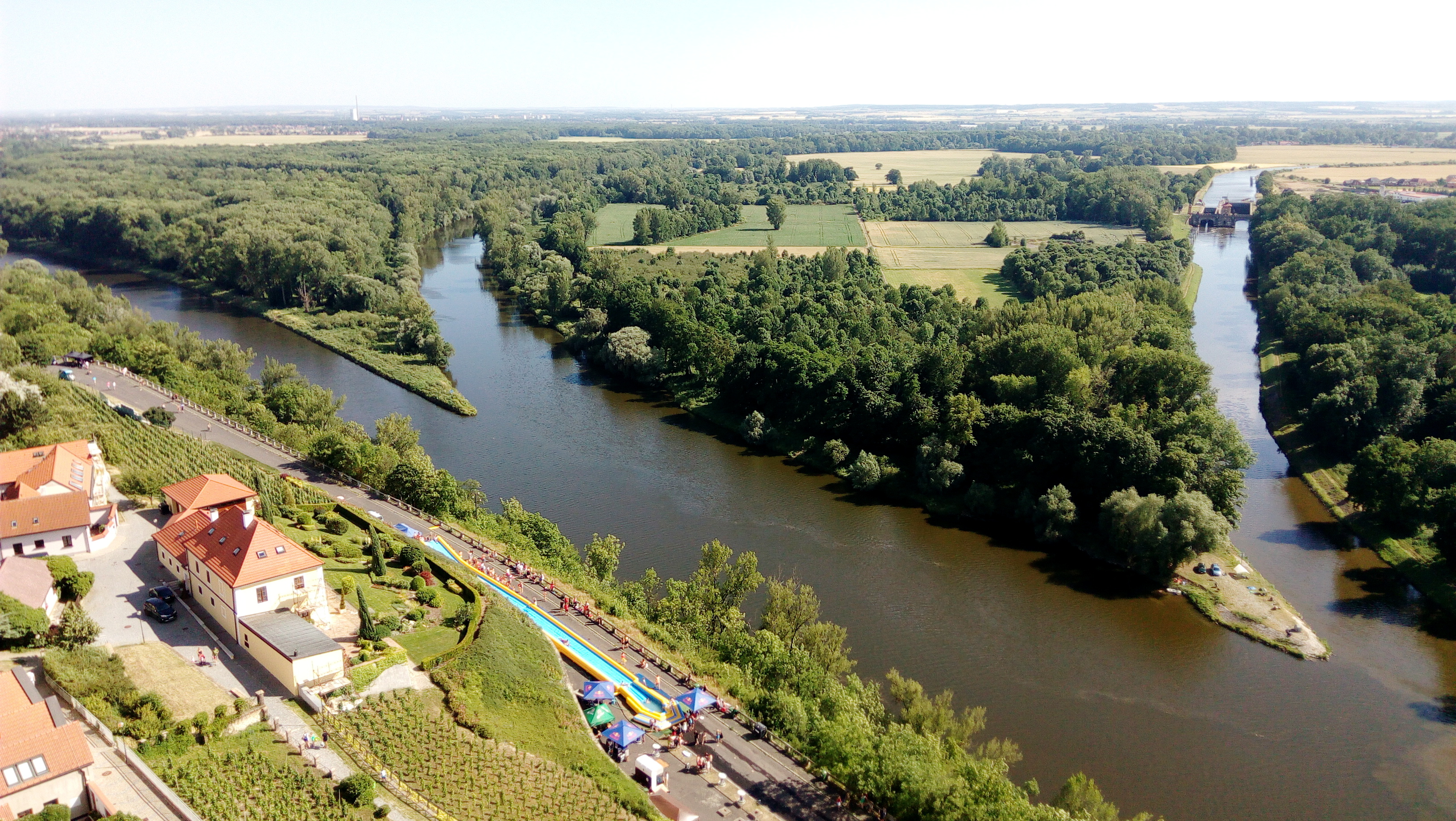 The Vltava at the confluence with the Elbe in the city of Mělník, Mělník District, Central Bohemian Region, Czech Republic.Slide Festival can be seen on the road between the river and the vineyard.